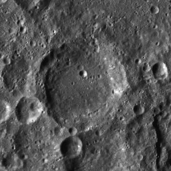 Backlund crater